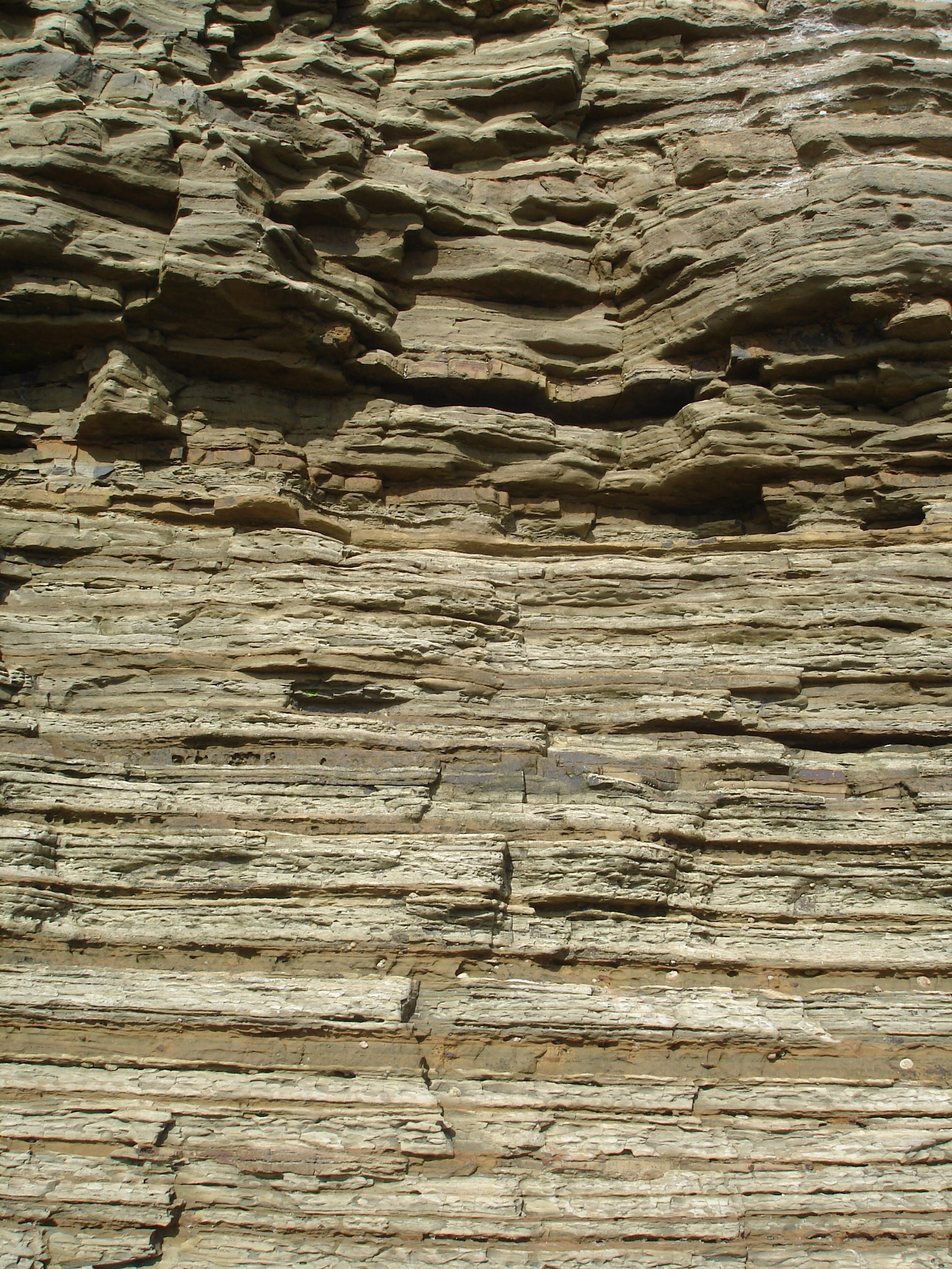 Upper Cretaceous turbidite from the Point Loma Formation, at Cabrillo Park, San Diego, California. These sedimentary rocks are interbedded finegrained dusky-yellow sandstone and gray clay shale that occur in graded beds.